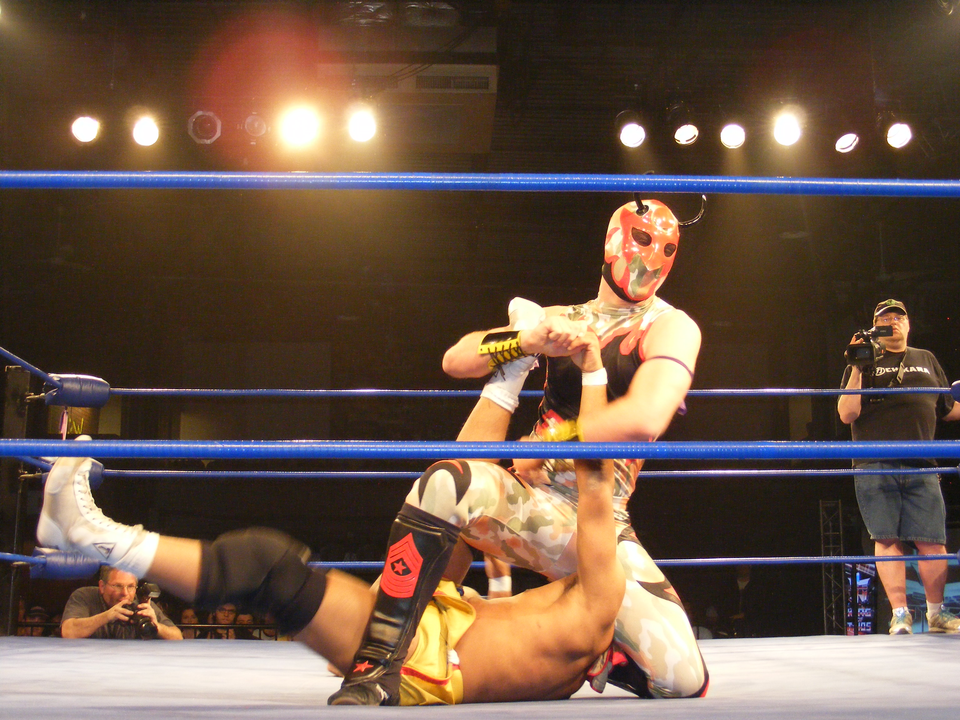 Professional wrestler Soldier Ant performing a Chikara Special on Hieracon at Chikara King of Trios 2011.